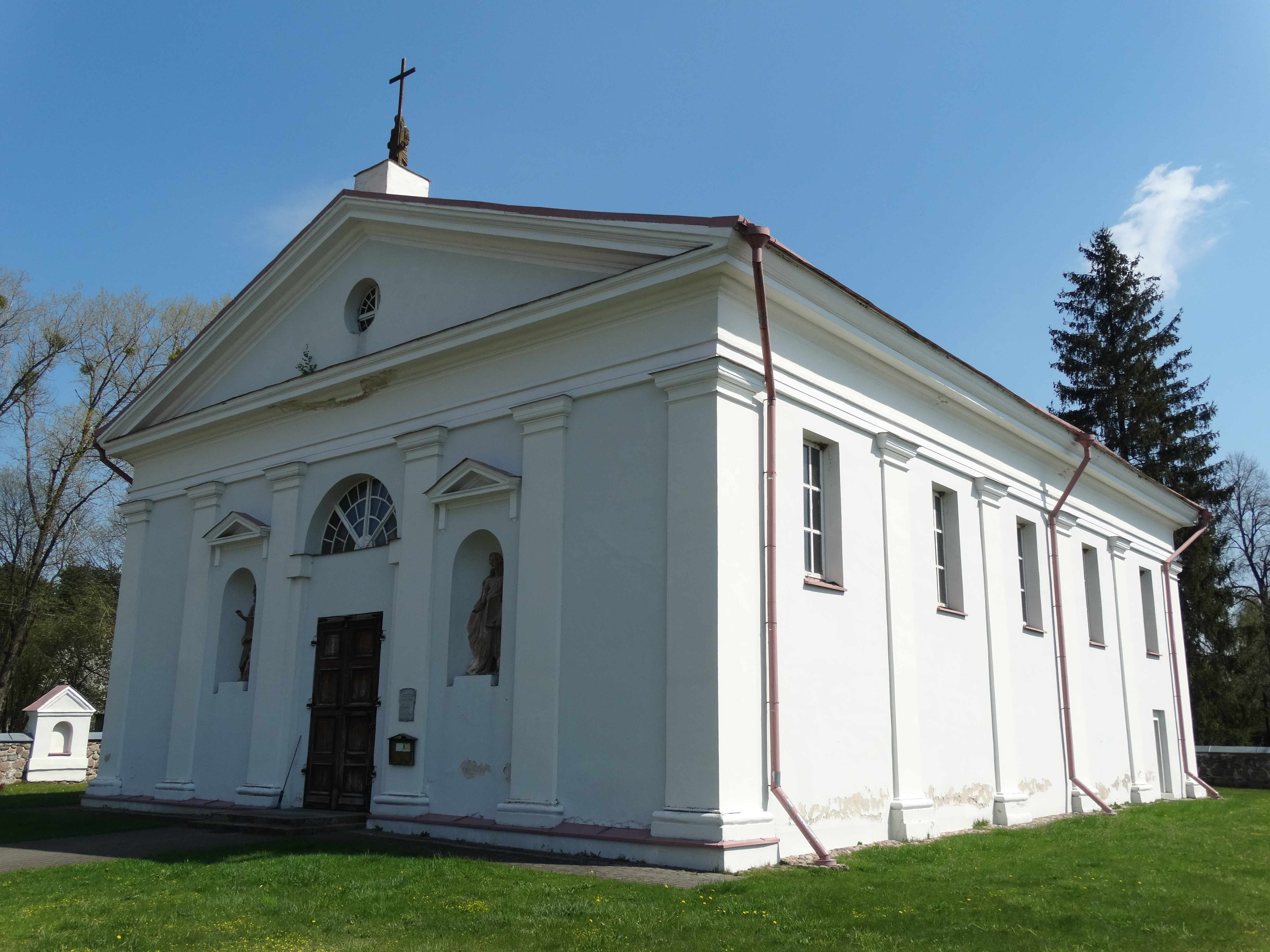 Saint John the Baptist church in Čiobiškis, Širvintos District, Lithuania